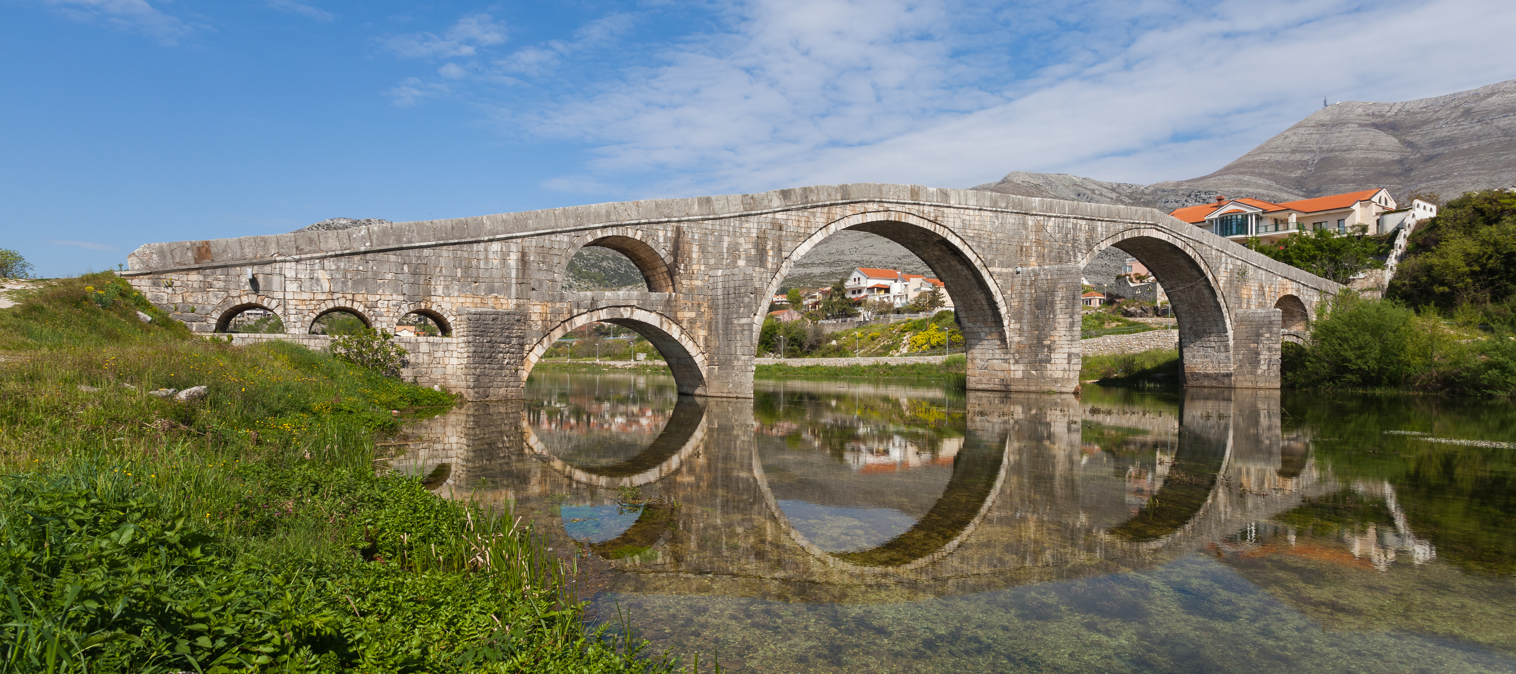 The Arslanagić Bridge is a 80 m long and 6 m high Ottoman bridge built originally in 1574 by order of the Grand Vizier Sokollu Mehmed Pasha, and rebuilt in 1972 in the city of Trebinje, Bosnia and Herzegovina. The bridge was an important trading link over the Trebišnjica river between Novi (Herceg Novi in Montenegro) and Ragusa (Dubrovnik in Croatia).